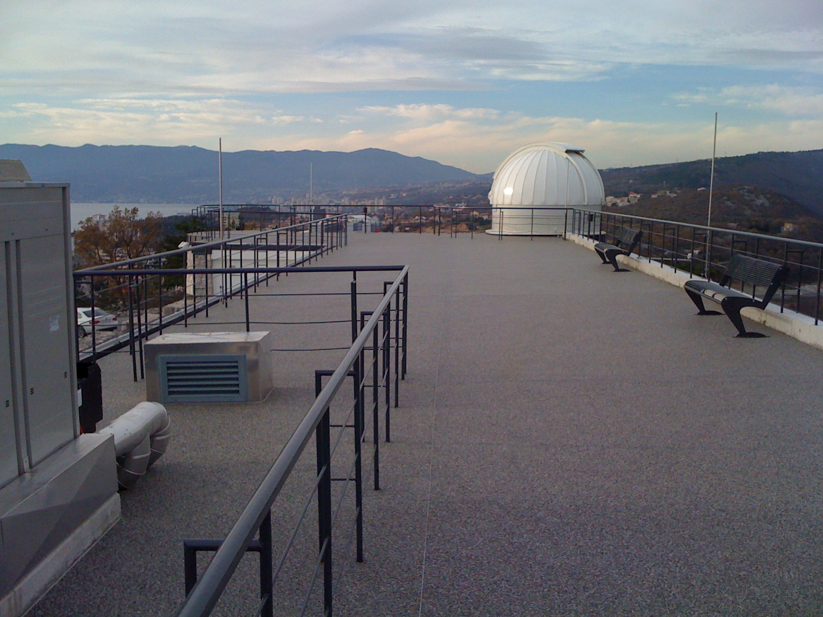 A view towards West on the topmost terrace of the Astronomical Center in Rijeka.